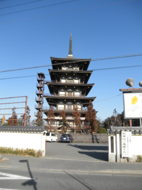 Enmanji five storeyed pagoda